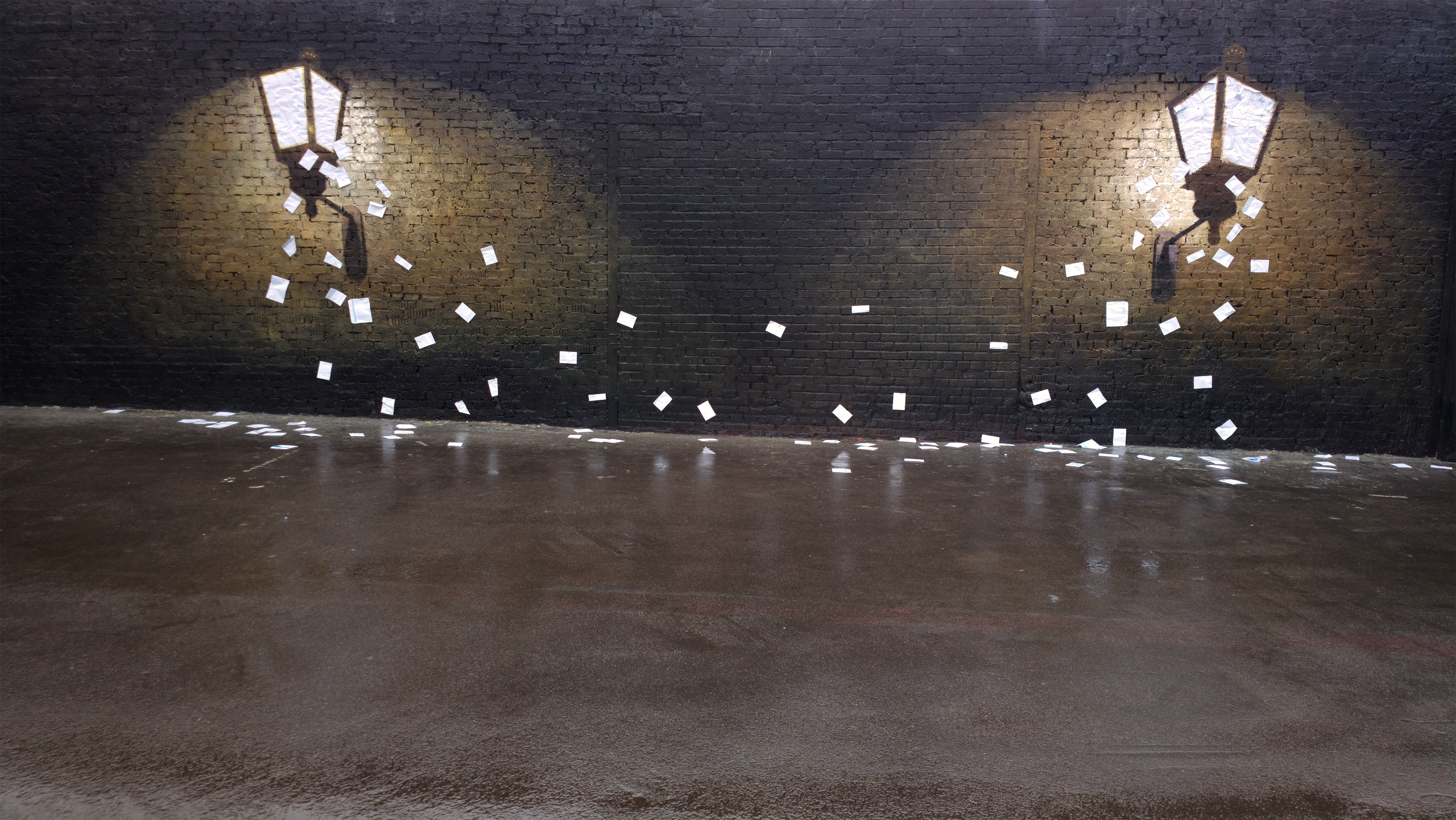 "Light" layer on "Wall", oil-envelope, 4,5x23 metres, CCA Winzavod, Moscow